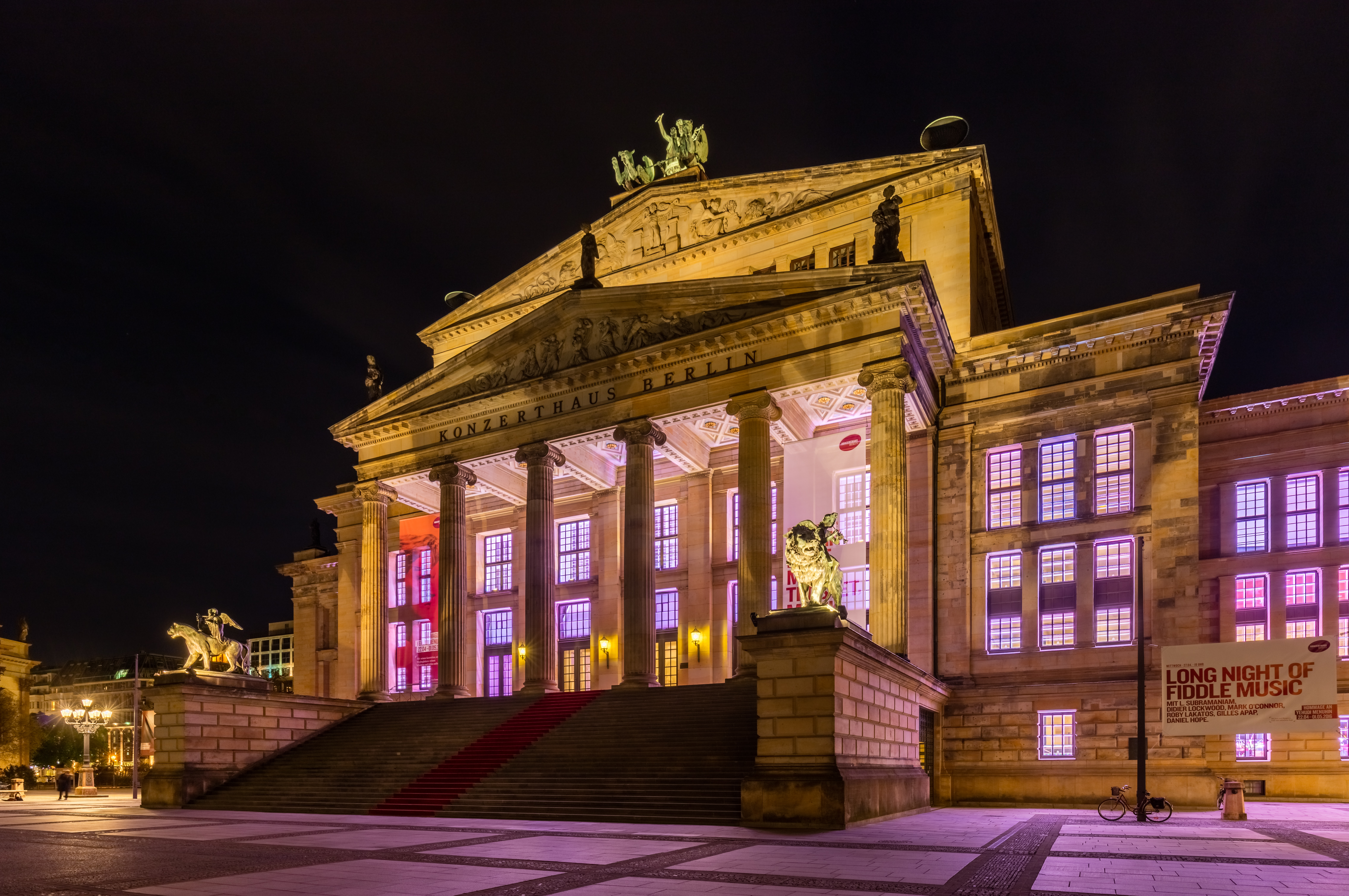 Concert hall, Berlin, Germany